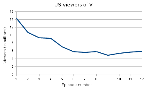 Chart of US viewers of V.